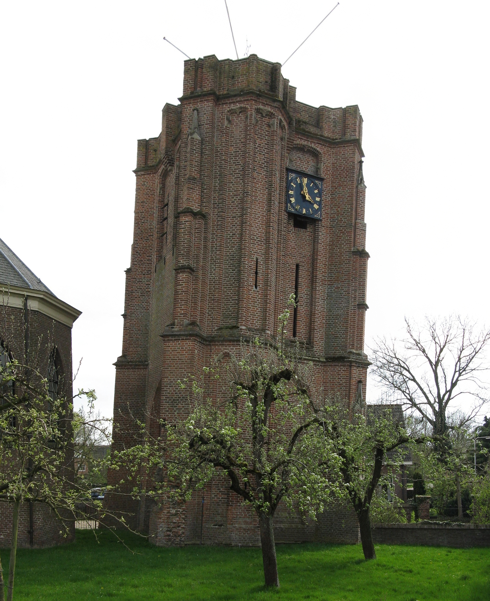 'Dutch Tower of Pisa', in the village of Acquoy